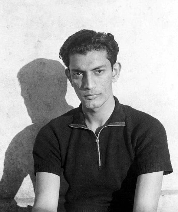 Teen aged Satyajit-Ray